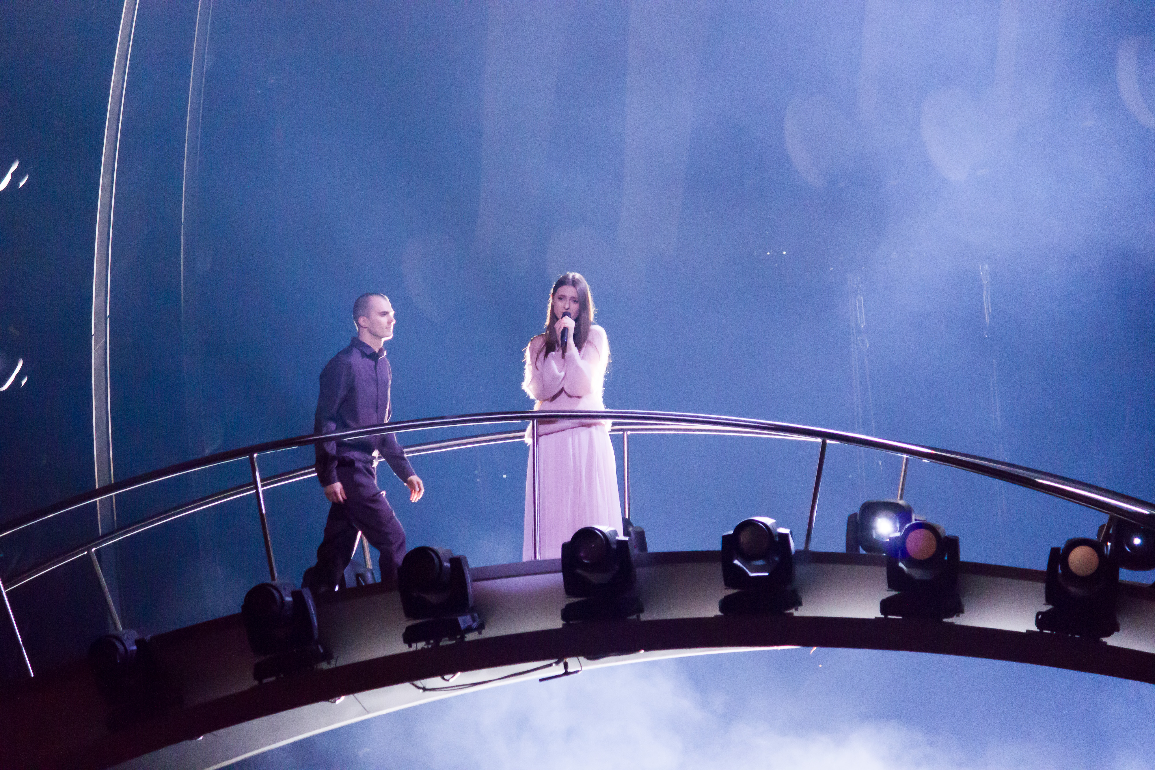 Ieva Zasimauskaitė representing Lithuania with the song "When We’re Old" during a rehearsal before the first semi final of the Eurovision Song Contest 2018 in Lisbon.